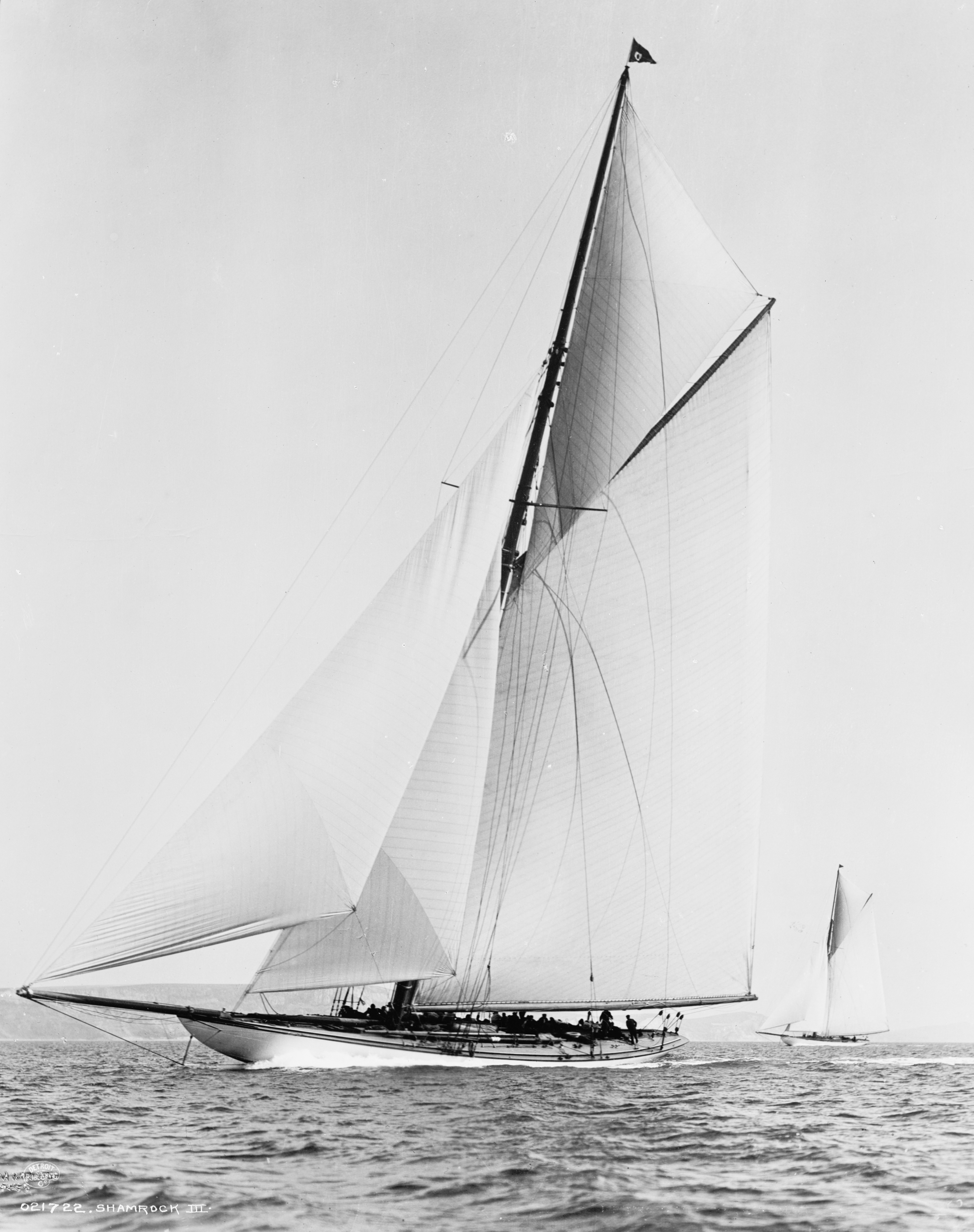 Sir Thomas Lipton's 1903 America's Cup challenger Shamrock III, probably with her 1899 trial Horse Shamrock I in the background, both designed by William Fife III.